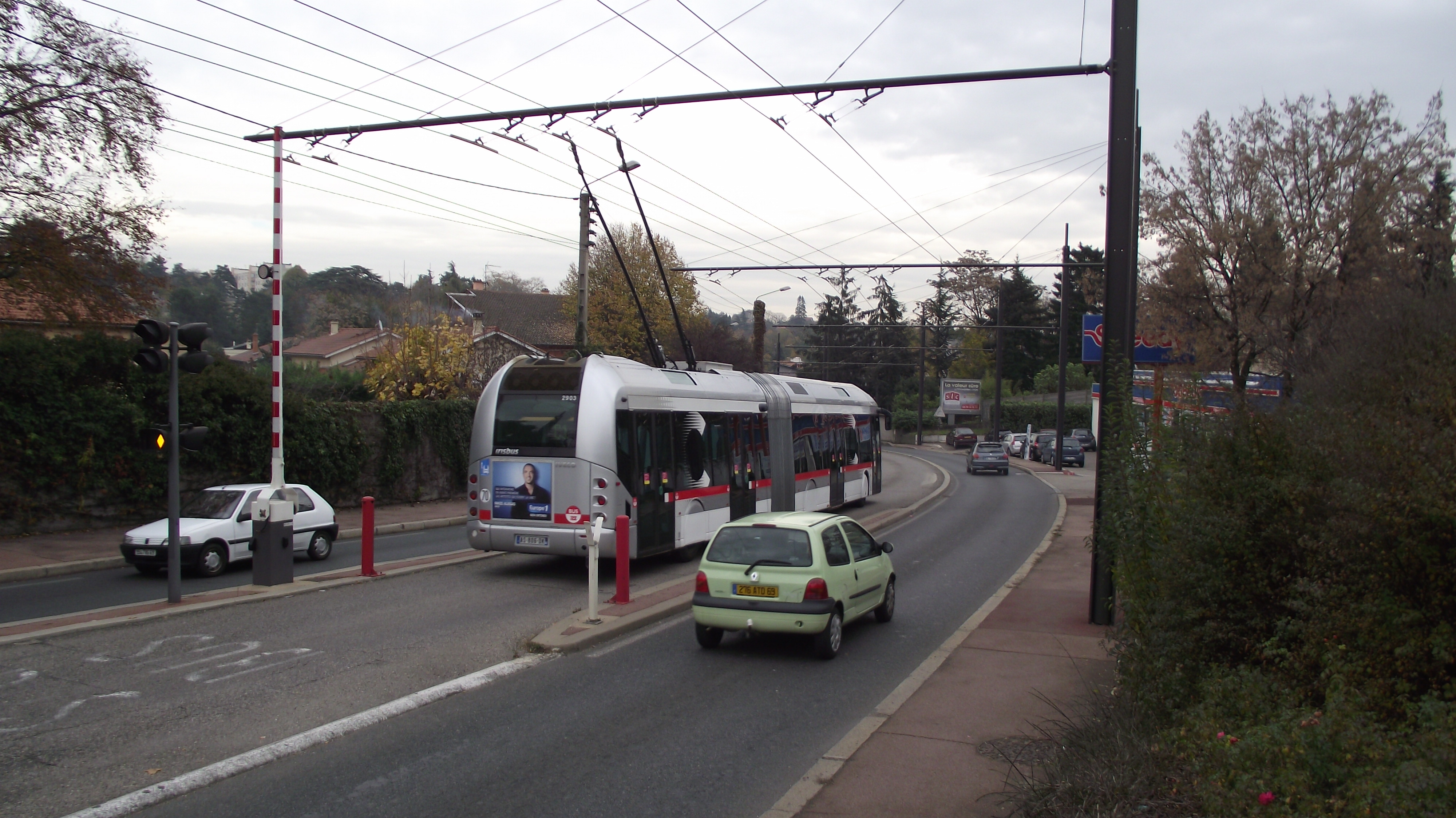 C2 or C1 trolleybus on the Montée des Soldats road.